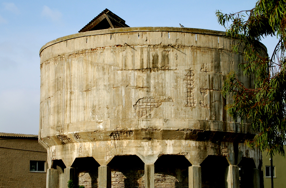 Historic water tower in Beer Tuvia